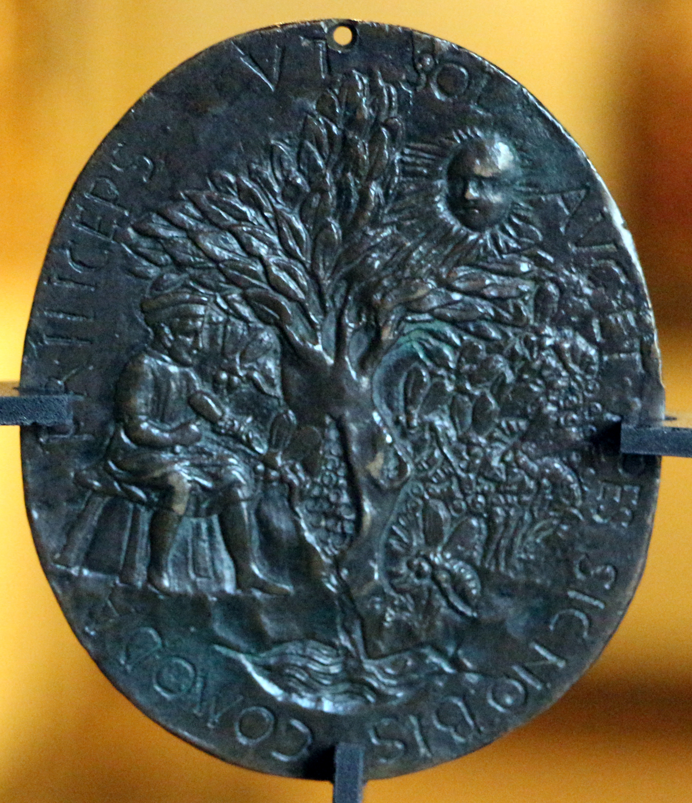 Medagliere del Castello Sforzesco (Milan)